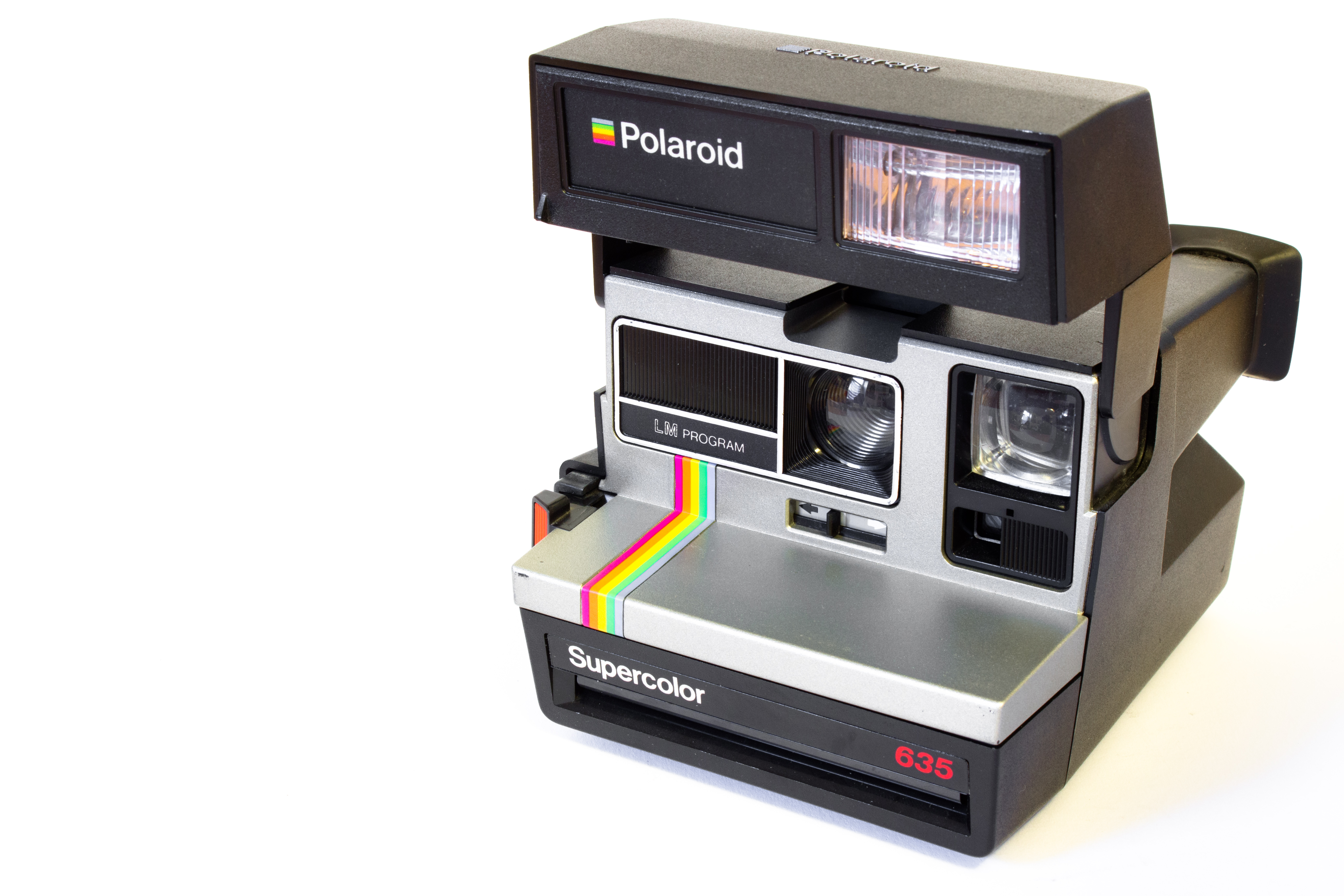 Home studio shot of a Polaroid 635 instand camera.